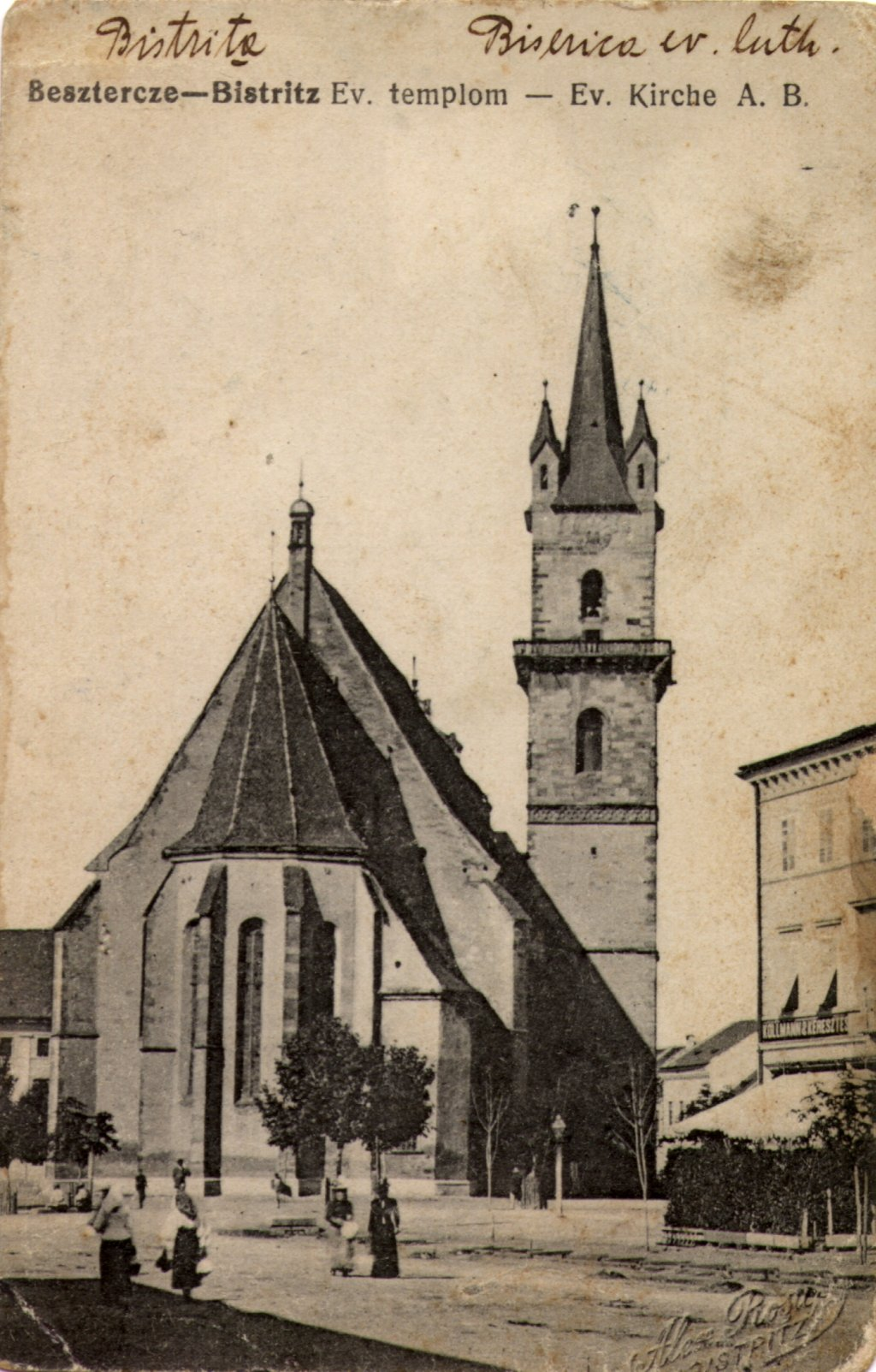 Bistriţa 18. sec